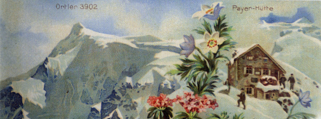 Advertisement Milka chocolate: Ortler and Pyerhütte